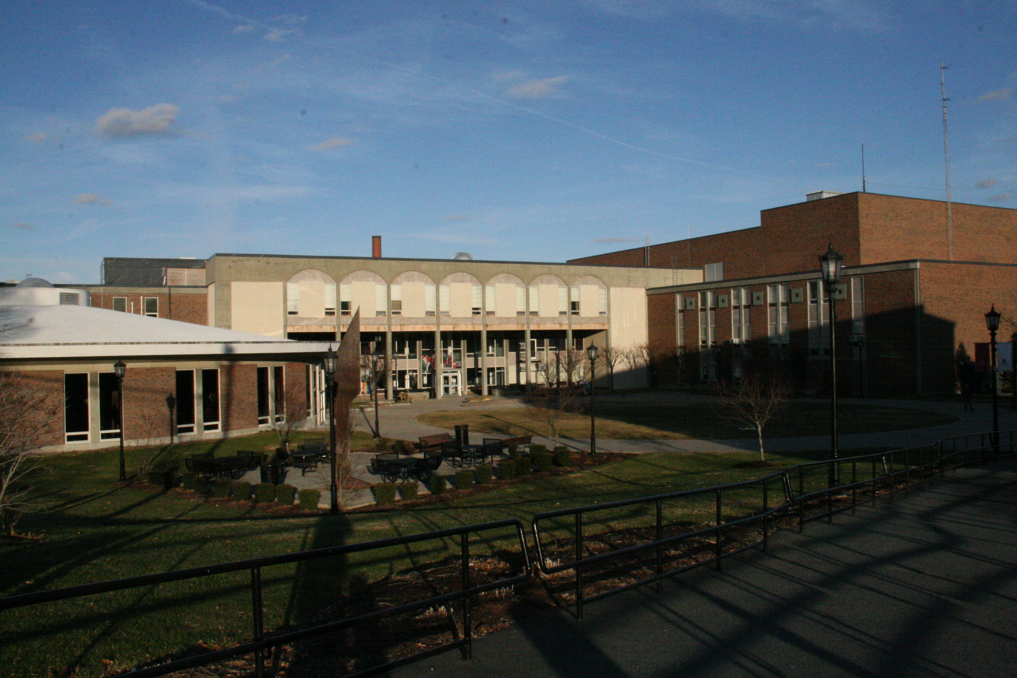 Bridgewater University 19 Park Ave Bridgewater Ma.